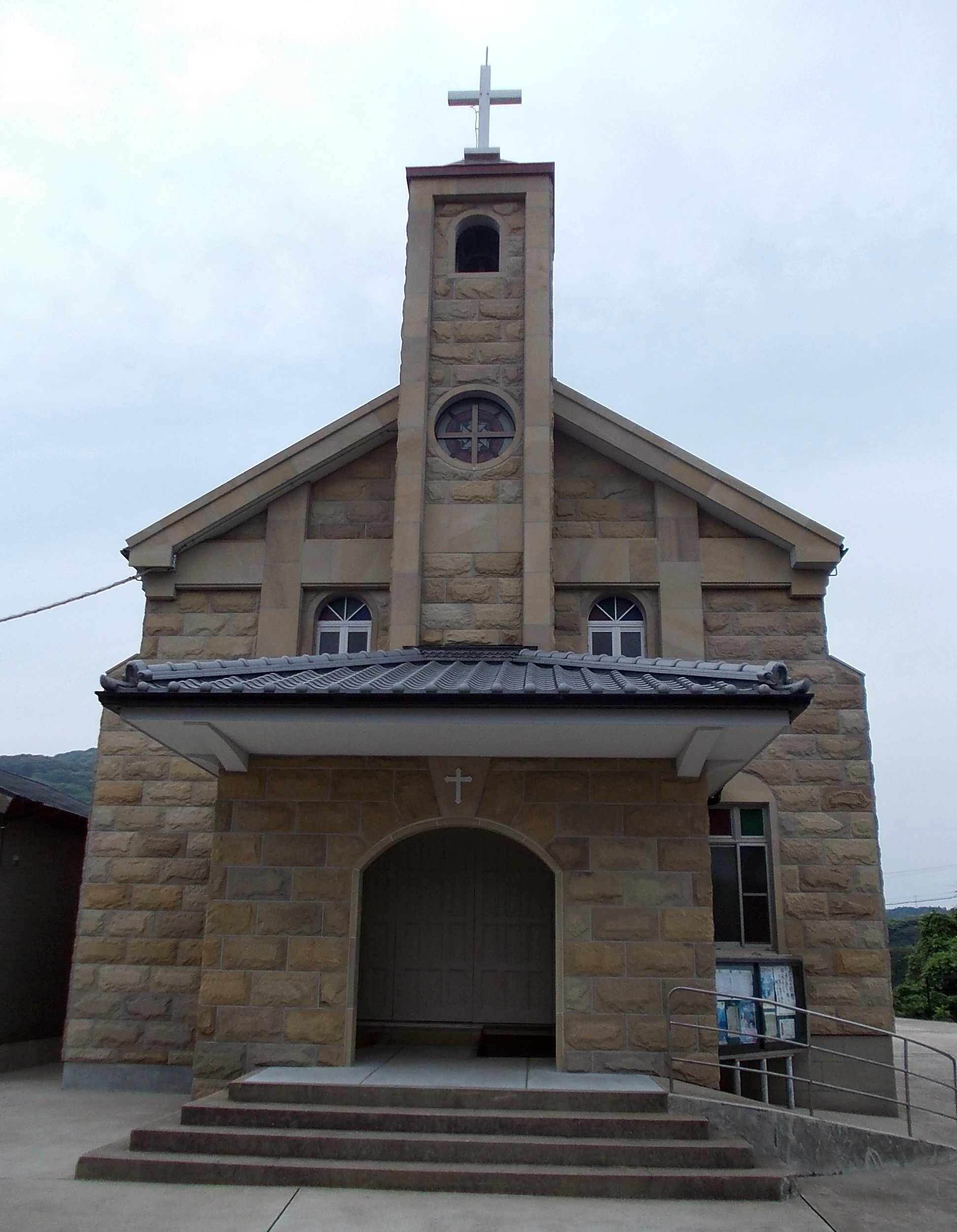 Yamada Catholic Church, Hirado City, Nagasaki, Japan. Taken on 04 June 2011.